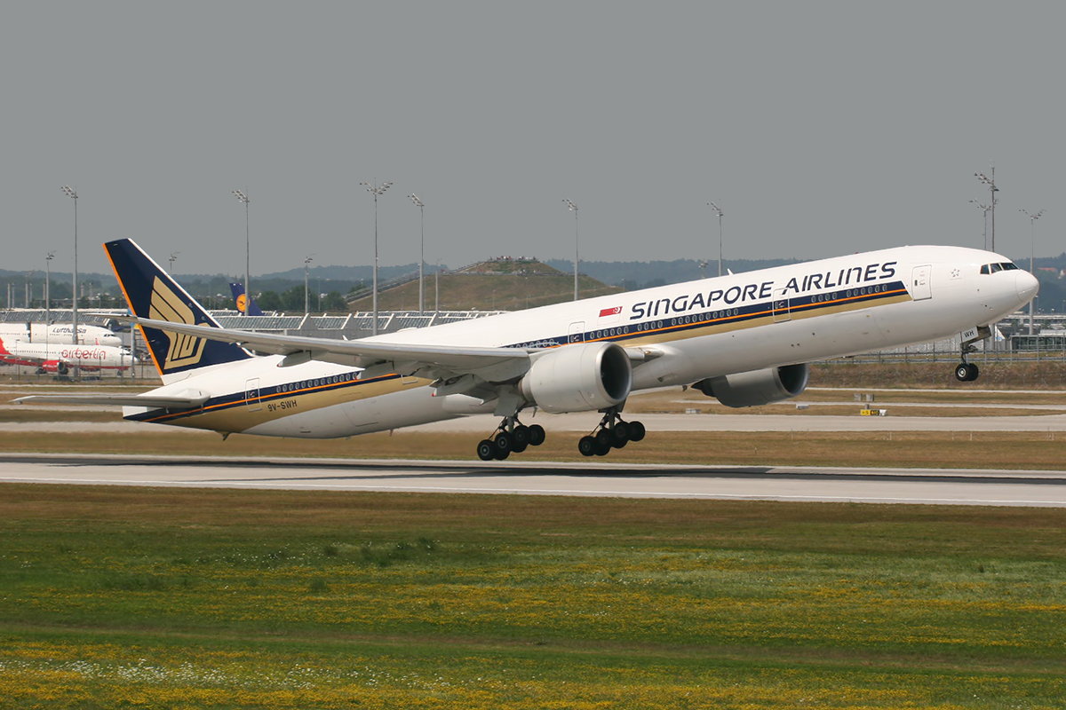 Munich (EDDM/MUC) Airport